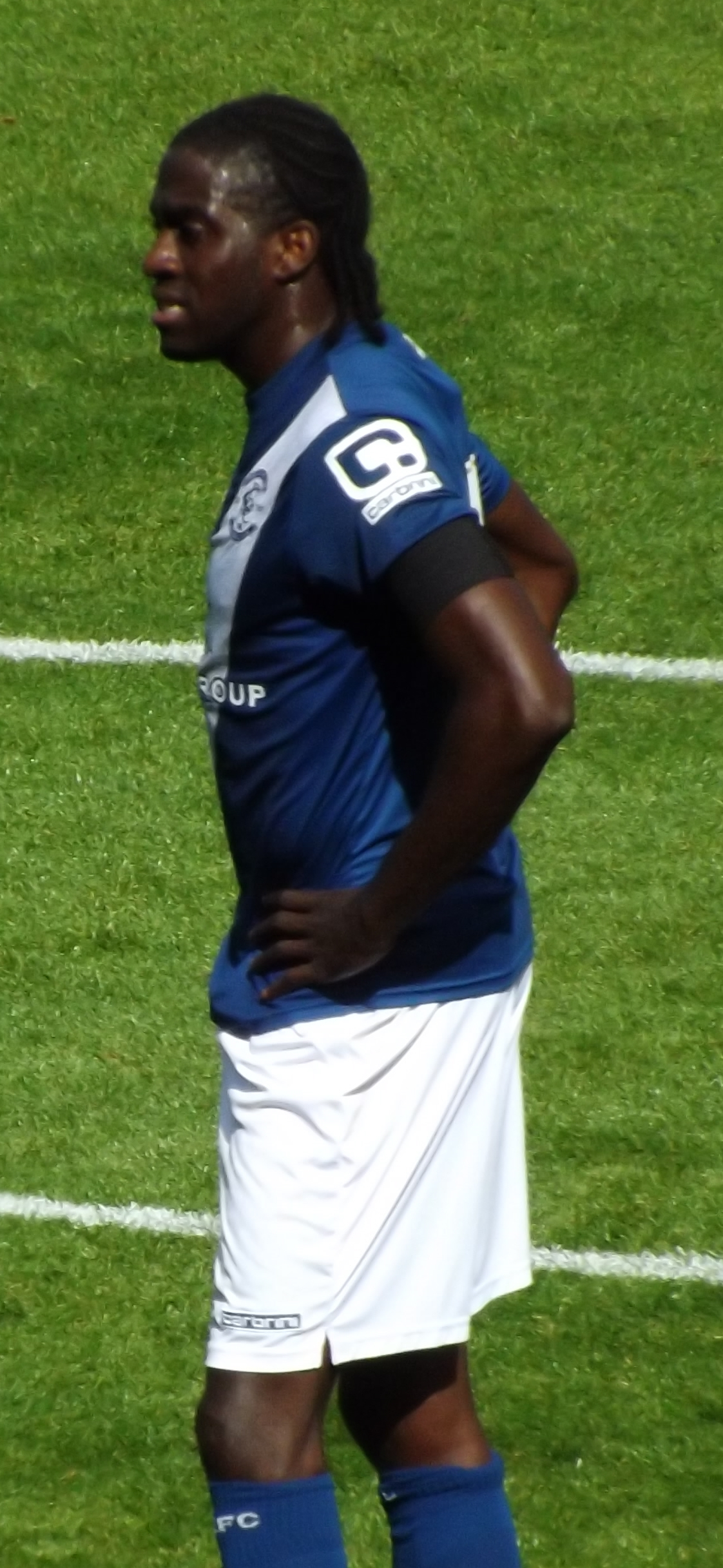 Clayton Donaldson playing for Birmingham City against Leicester City at St Andrew's, Birmingham on 1 August 2015